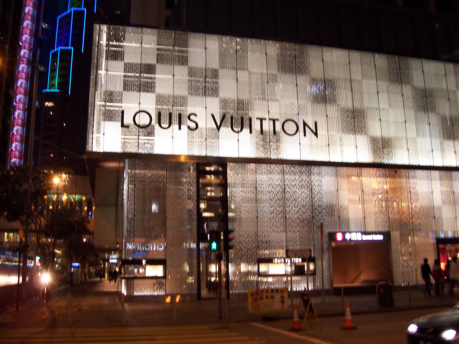 A Louis Vuitton store in Central, Hong Kong. Taken by Enoch Lau on 2 January 2006. As a courtesy, please let me know if you alter this image or this image description page. Original filename was 100_1285.JPG.